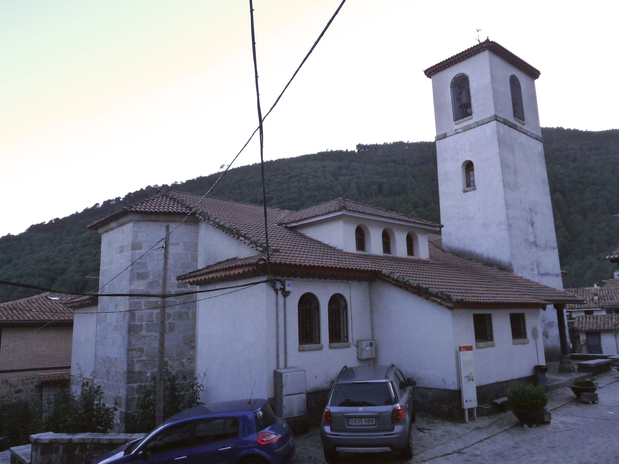 Church in Guisando, province of Ávila, Castile and León, Spain.